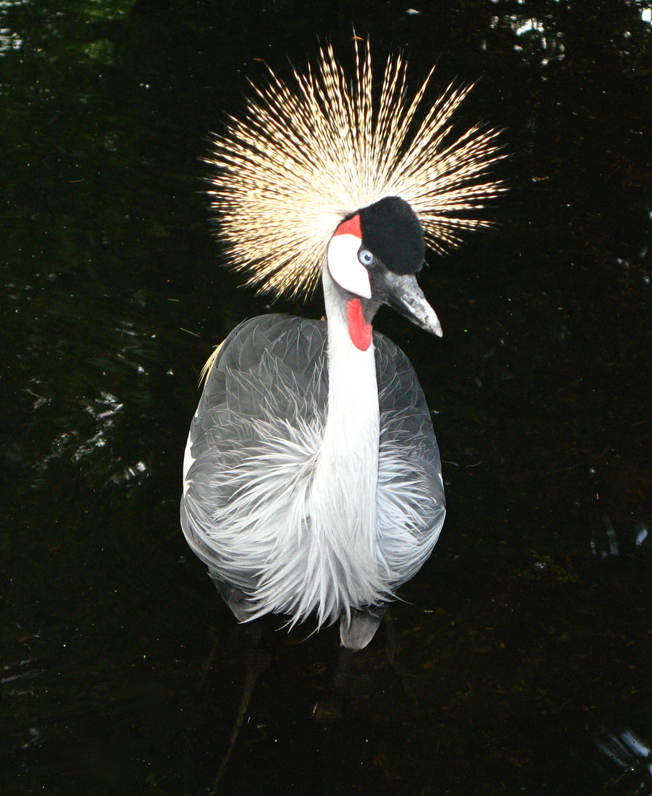 Grey Crowned Crane (Balearica regulorum) in Warsaw zoo